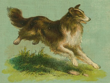 (Removed after reusableart request.)